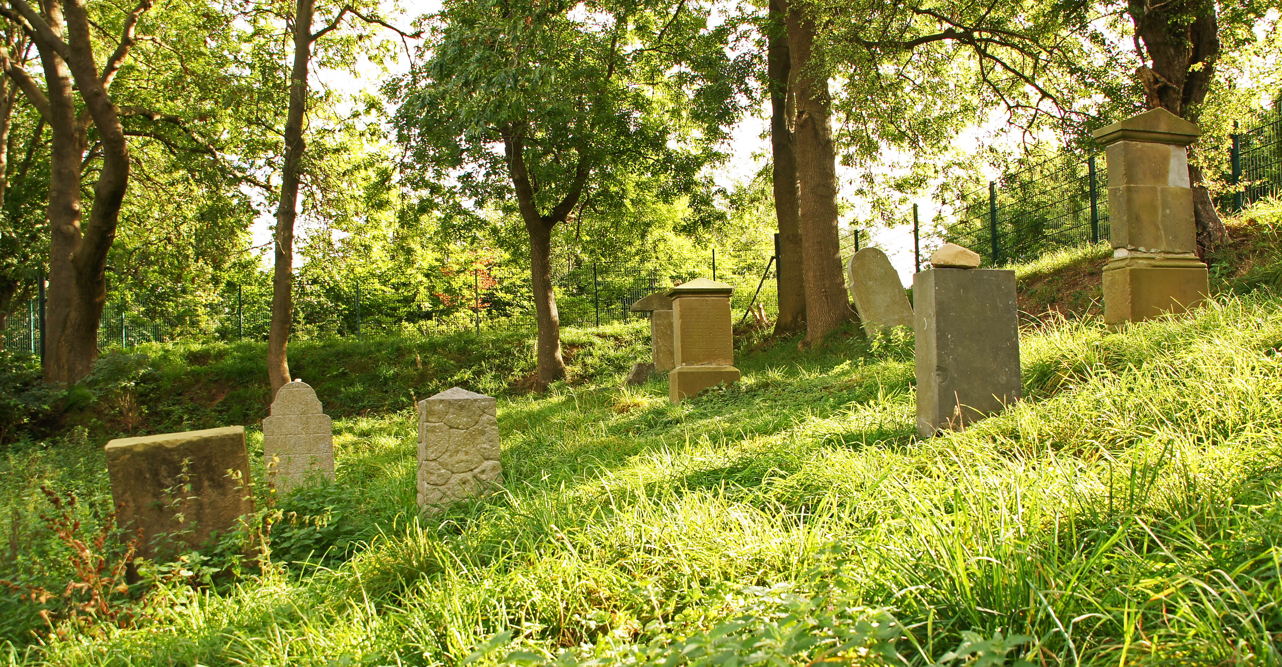 Jüdischer Friedhof Fliesteden